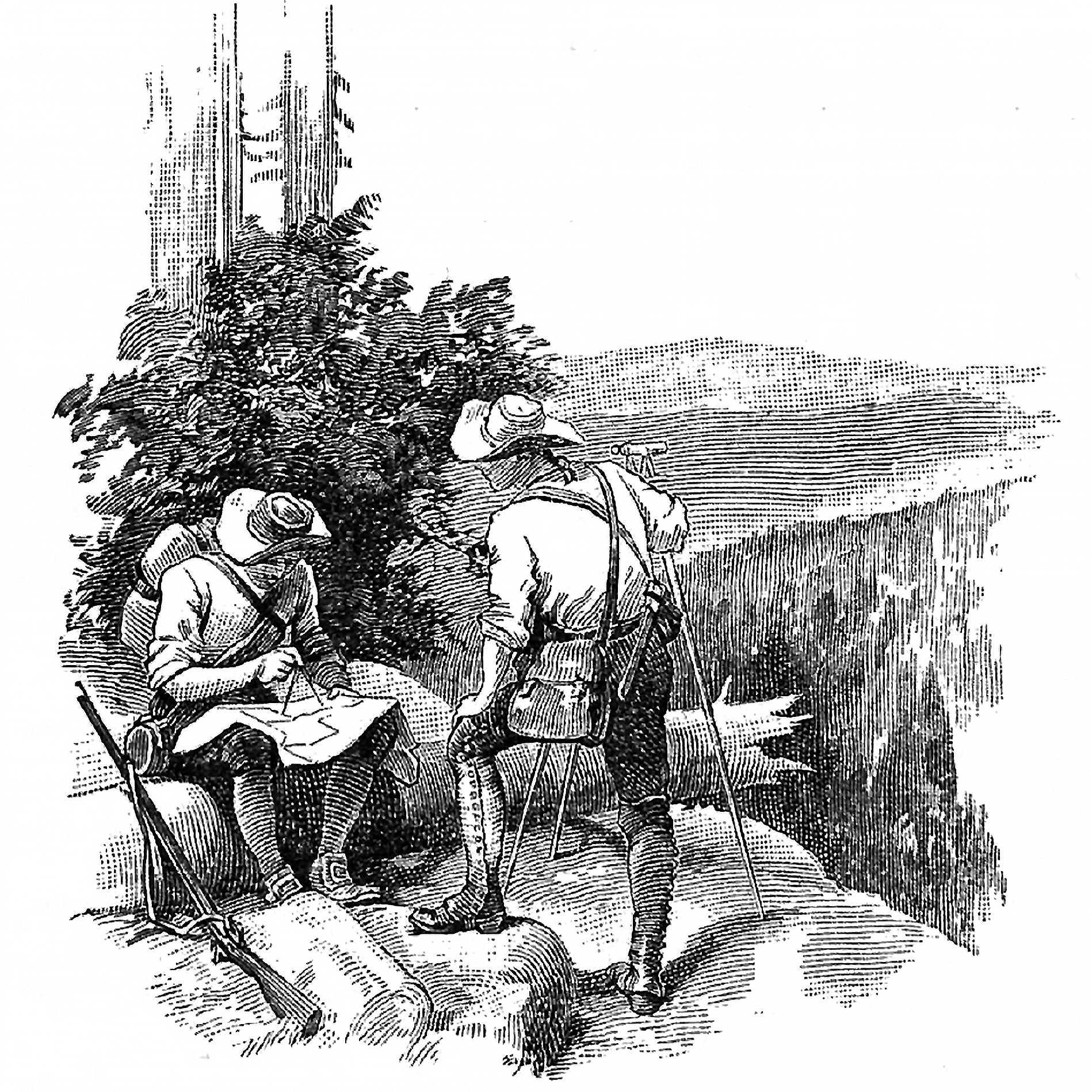 Illustration of Charles Mason and Jeremiah Dixon surveying the Mason–Dixon line, circa 1763–1768.